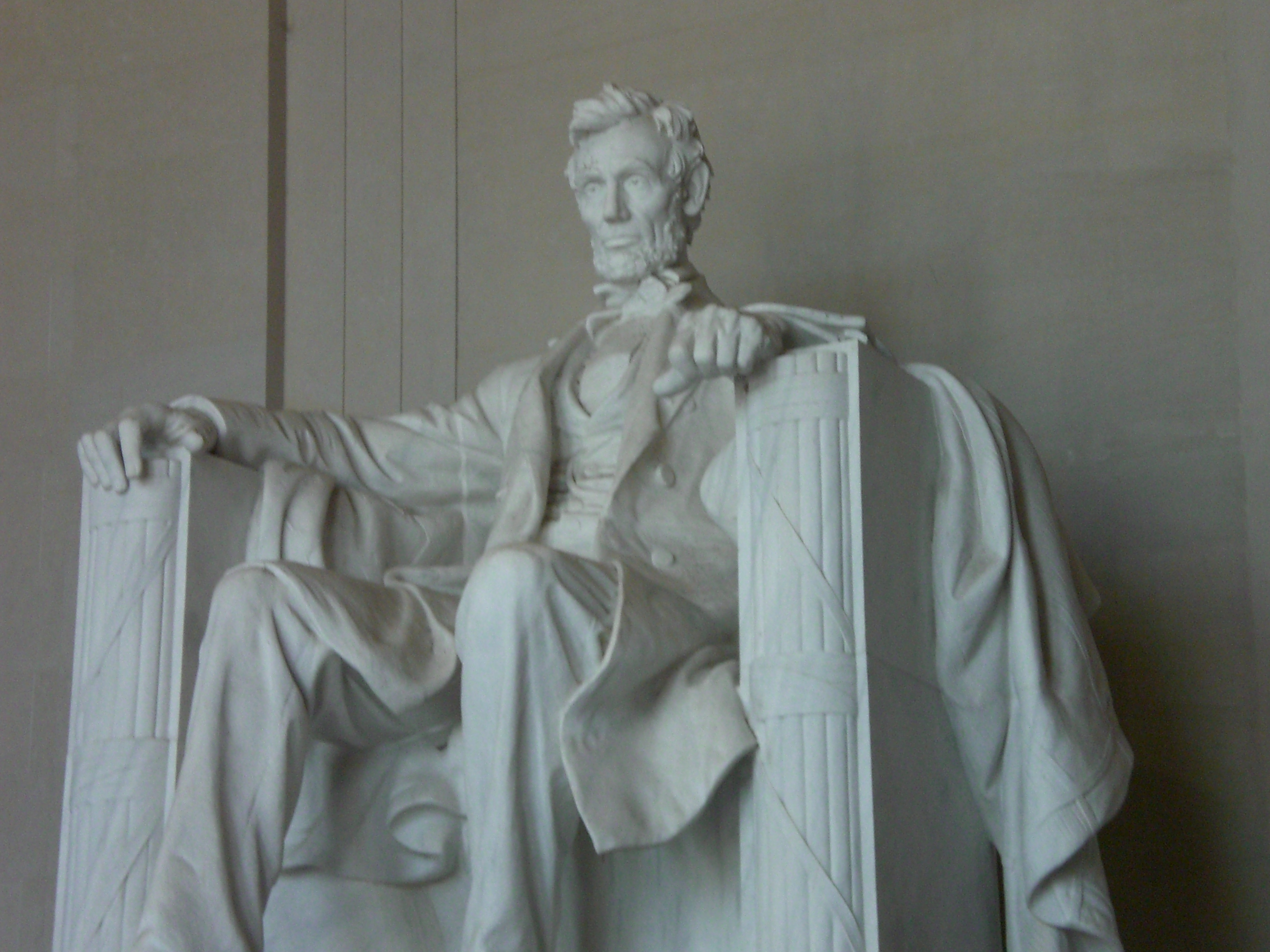 The sculpture of Abraham Lincoln in Washington DC